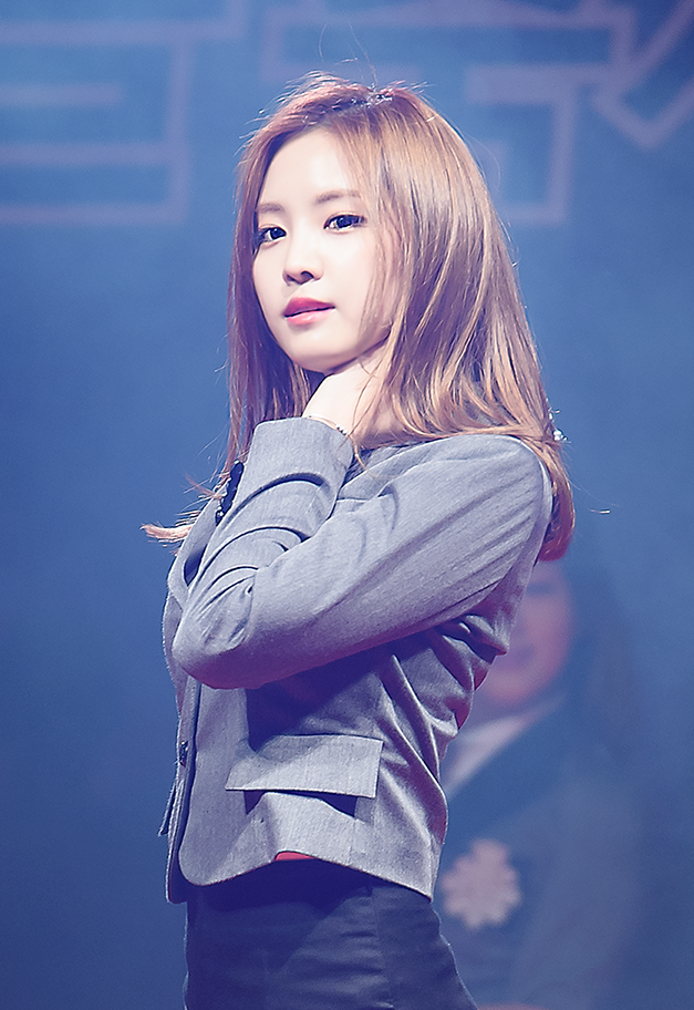 Son Na-eun at Hosan University Festival, 6 October 2015